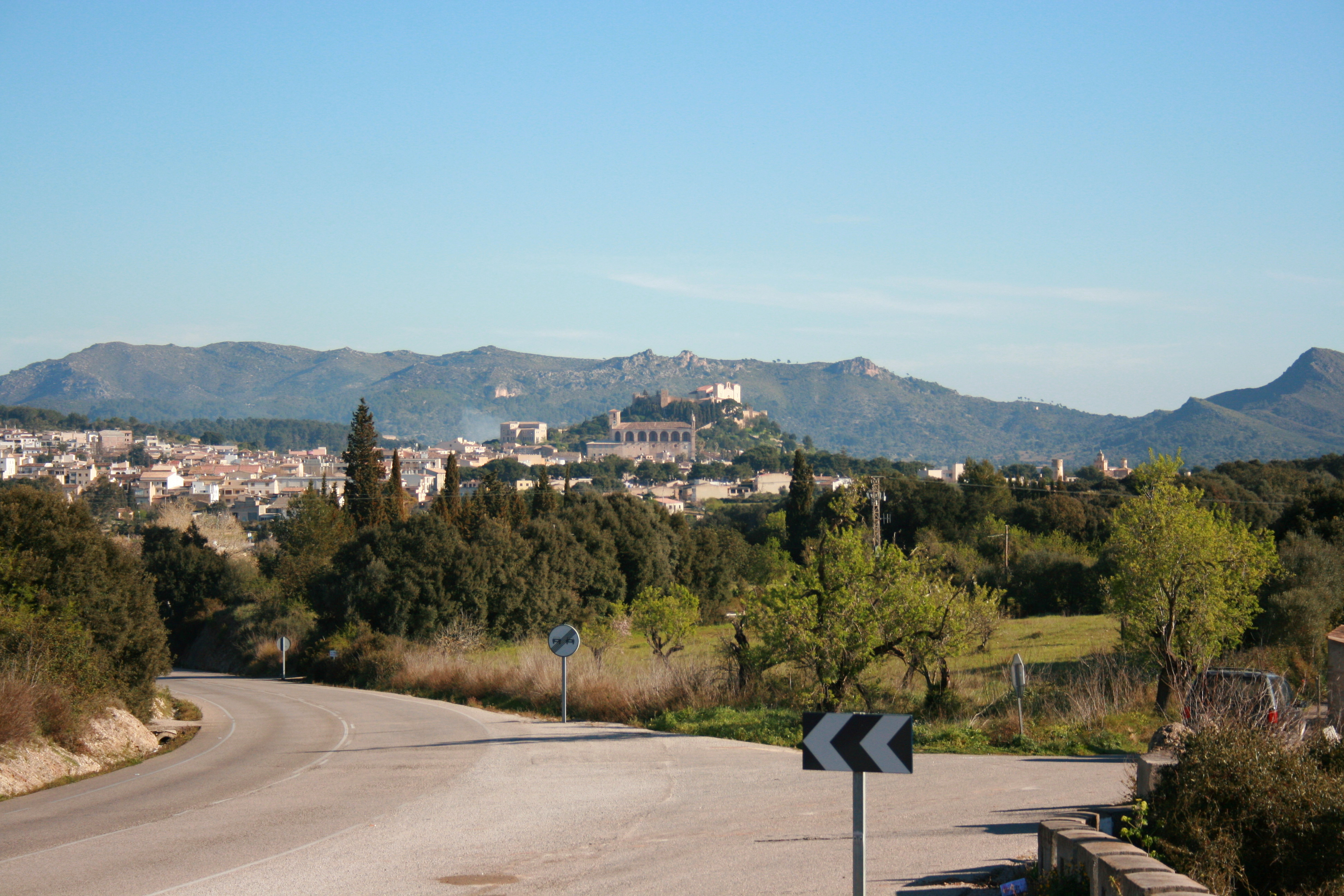 View from the road Ma-15 to Artà, Mallorca